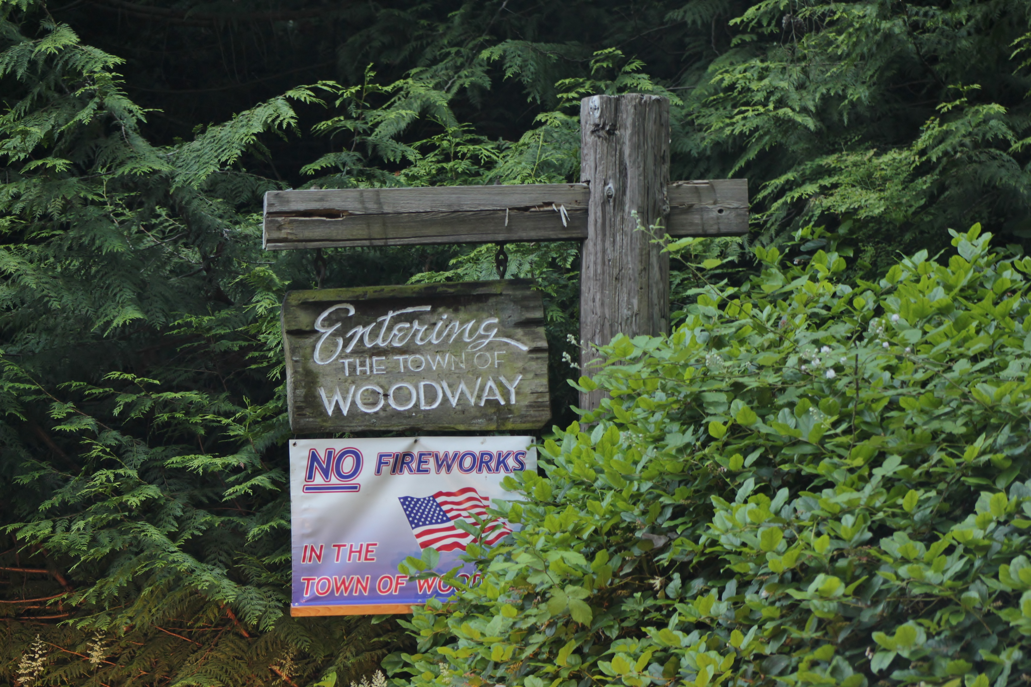 A welcome sign for Woodway, a suburb of Seattle in Snohomish County, Washington.